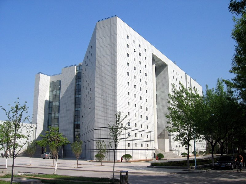 Photograph of the building that houses the State Key Laboratory for Crystal Materials on the central campus of Shandong University, Jinan, China.